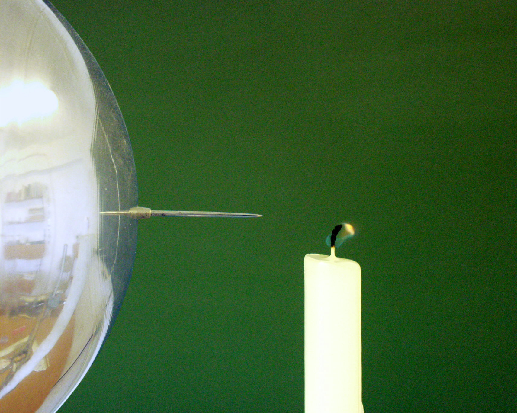 Electric wind.